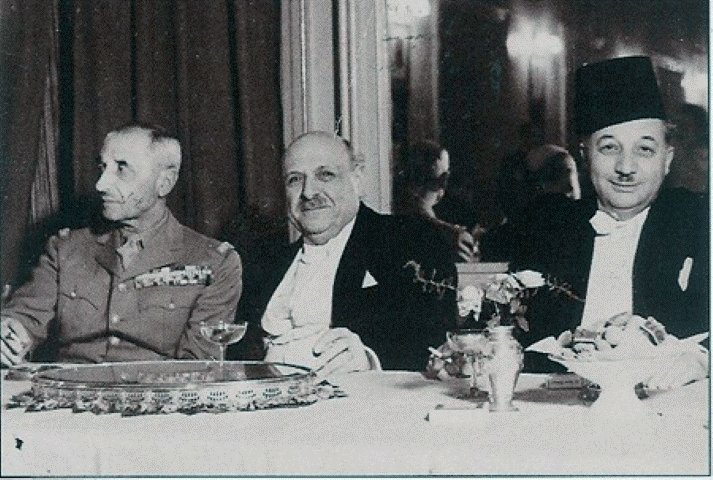 Right to Left: Riad Bey as-Solh, Prime Minister of Lebanon, Sheikh Bechara El Khoury, President of Lebanon, General Georges Catroux, High Commissioner to the Levant, sitting at a table after France recognized the independence of Lebanon.